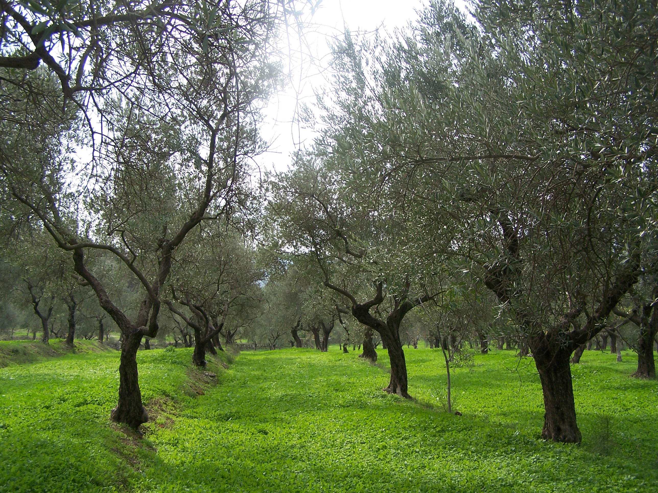 Olea europaea (Olive orchard) in Lebanon.